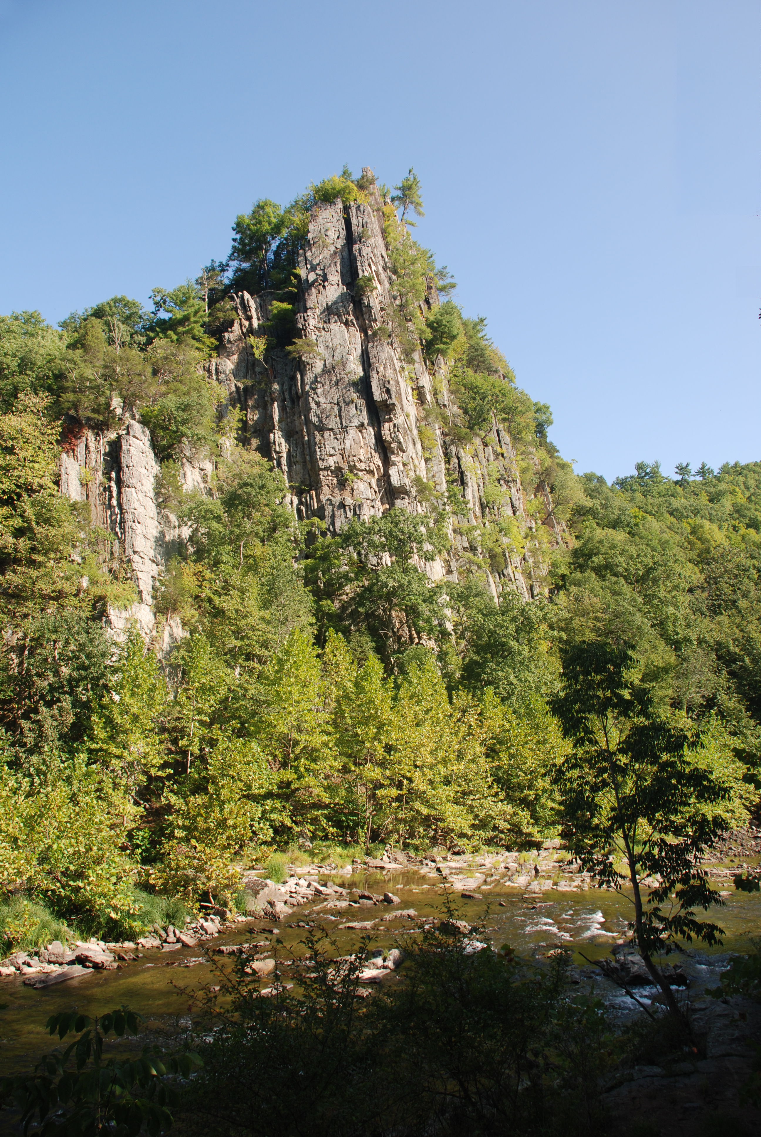 Eagle Rocks cliff along Smokehole Road in Smoke Hole Canyon, West Virginia.